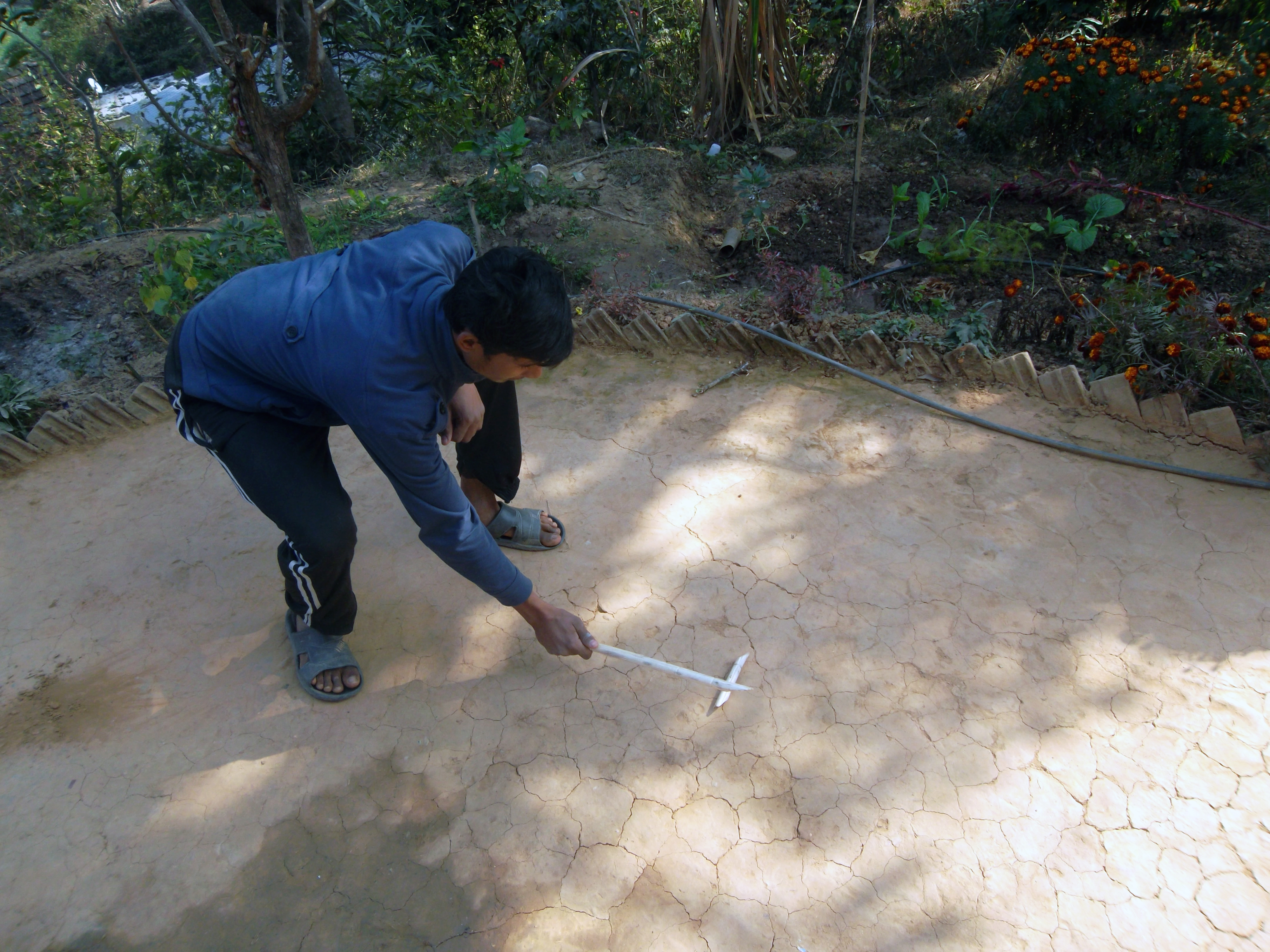 A boy playing Dandbiyo.